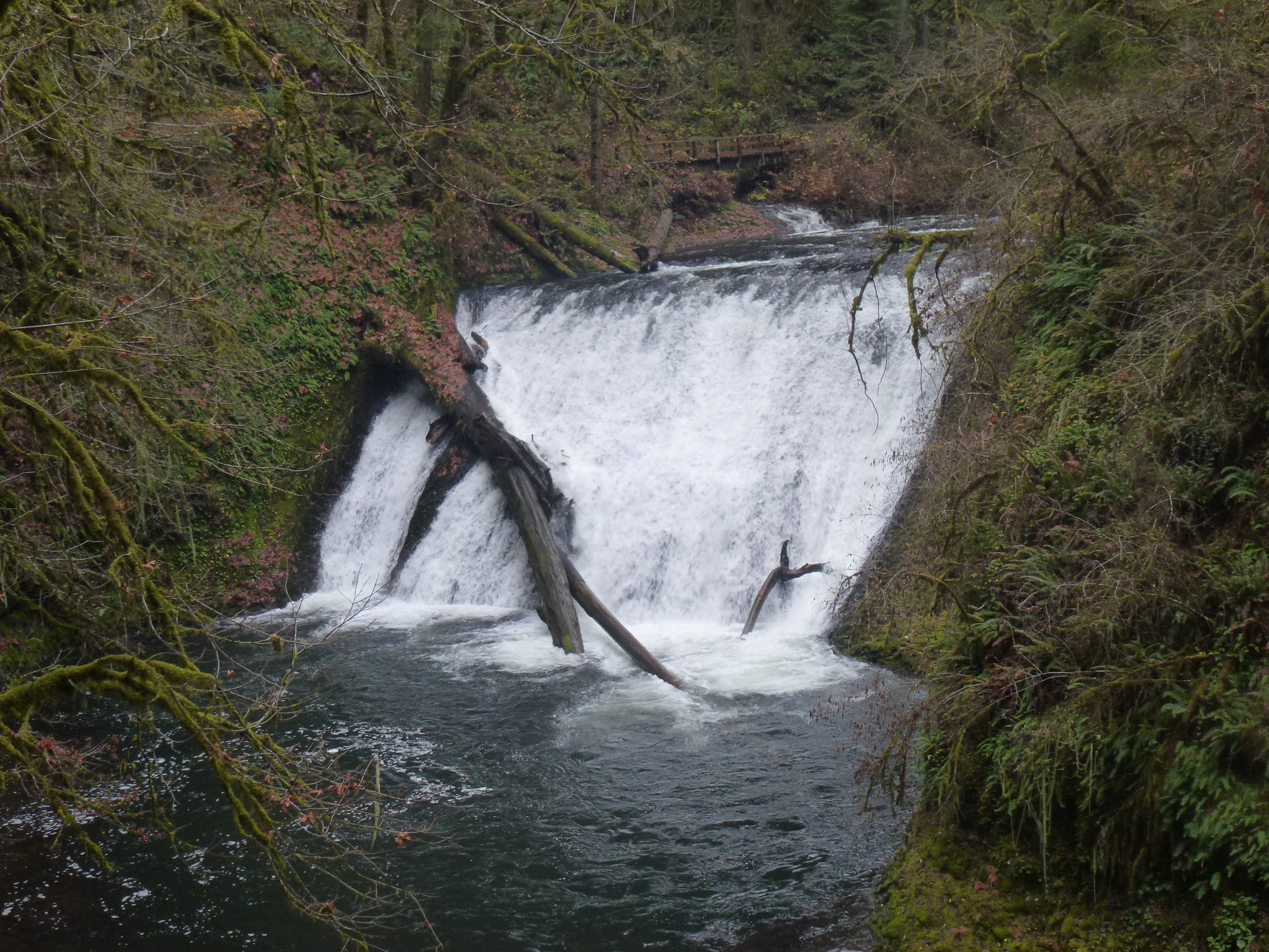 30-foot (9 m) tall Lower North Falls in Silver Falls State Park.